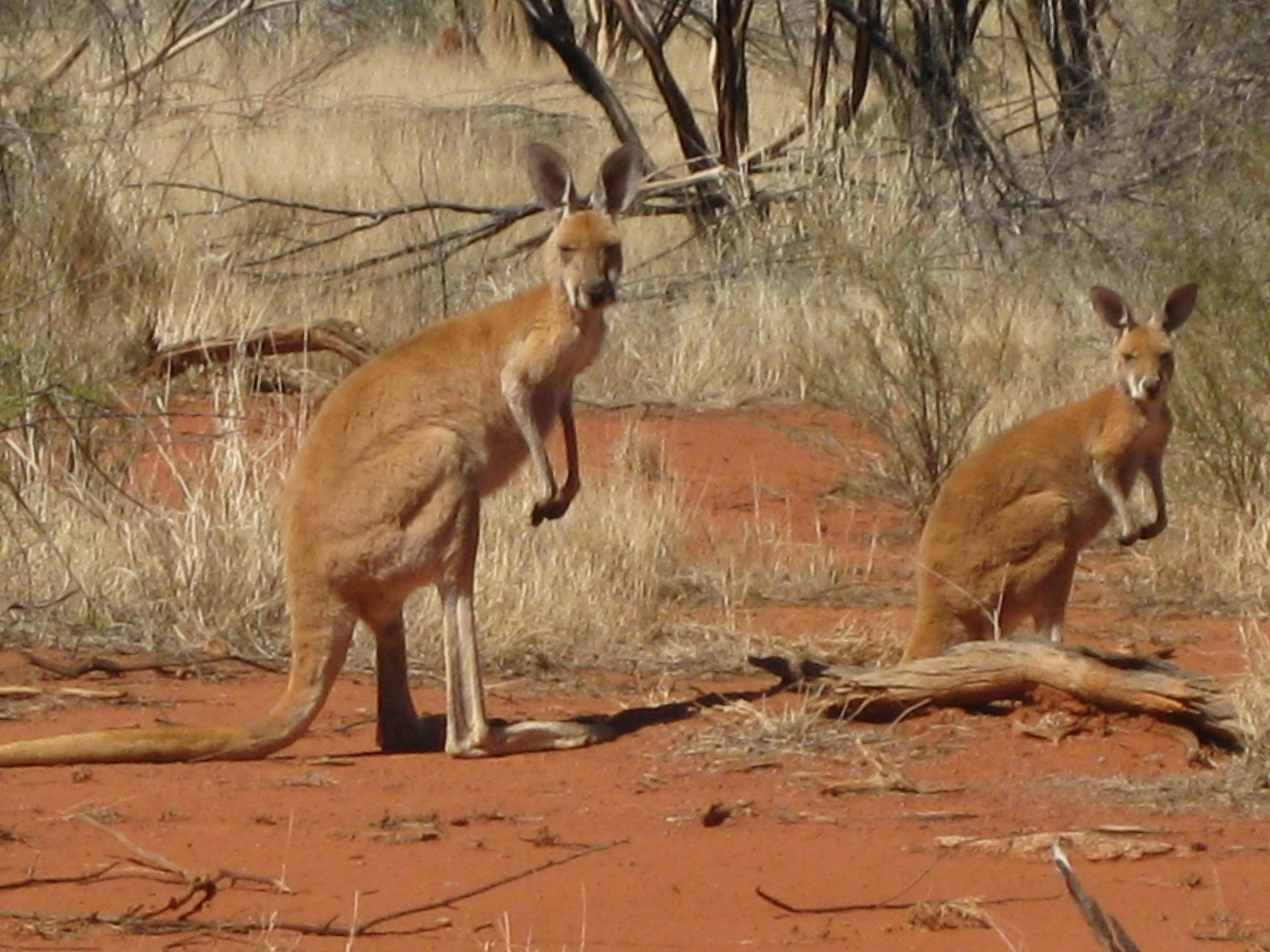 Red Kangaroos on Angas Downs are currently uncommon. These pair were found December 2009. Angas Downs rangers are working to increase red kangaroos - as they are an important totem, and kuka (game) food species. Anangu term for kangaroo is Malu.